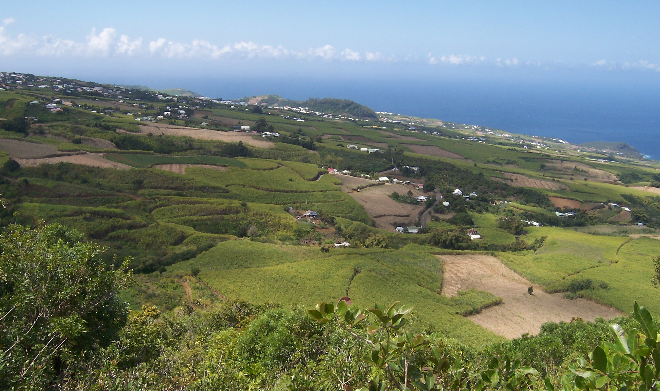 Sugarcane fields during the harvesting season : small properties on the slopes near Petite-Île (Réunion island)